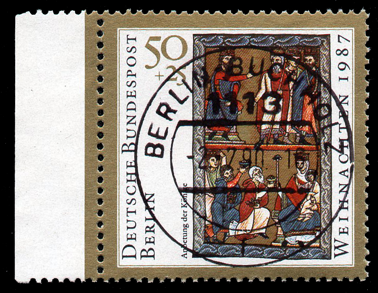 Stamp of Deutschen Bundespost Berlin from 1987, Christmas 1987. Used after the fall of Berlin Wall in East Berlin, Berlin-Buchholz